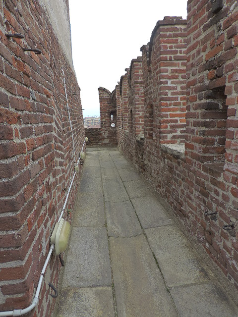 Crenellation surrounding the Torre del Bramante